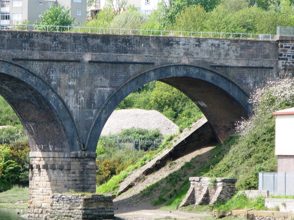 The northenmost arch of Weston Mill Viaduct in Plymouth, Devon, England. The stone structre in the mud of Camel's Head Creek is the dwarf pier of the original timber viaducts that the present day viaduct replaced.